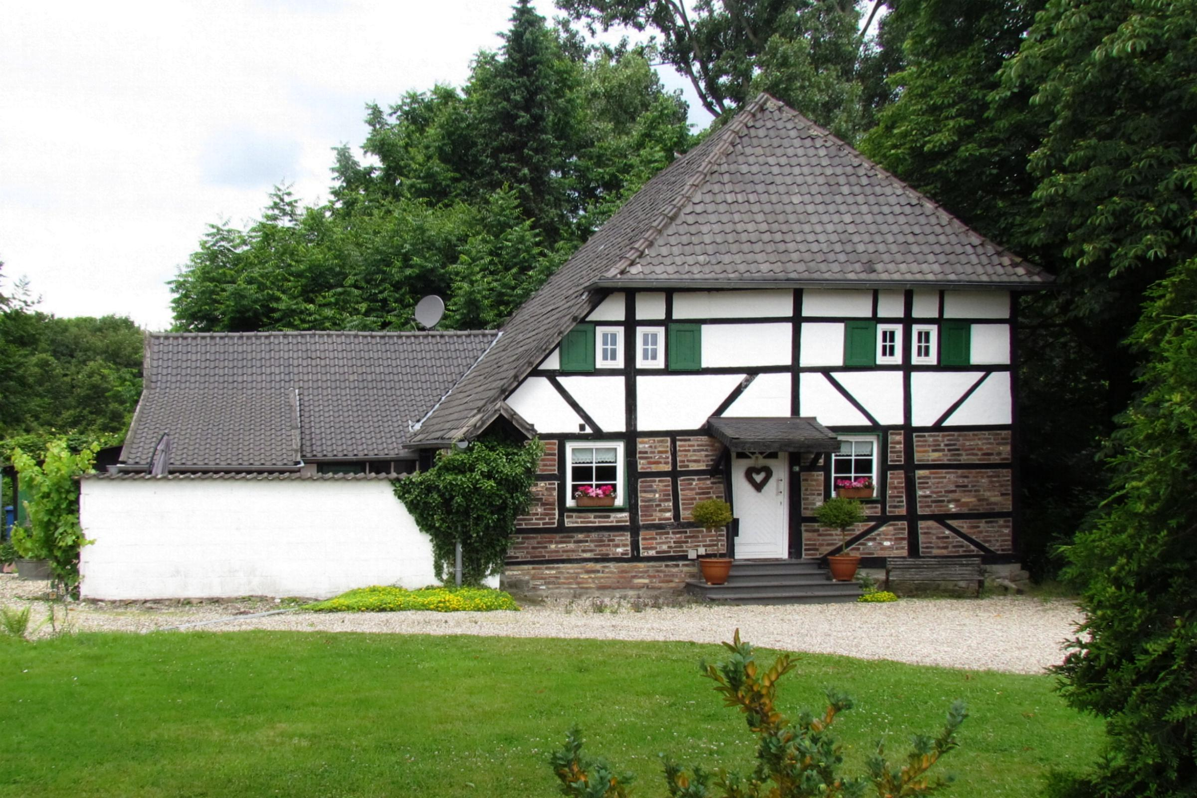 This is a photograph of an architectural monument.It is on the list of cultural monuments of Korschenbroich